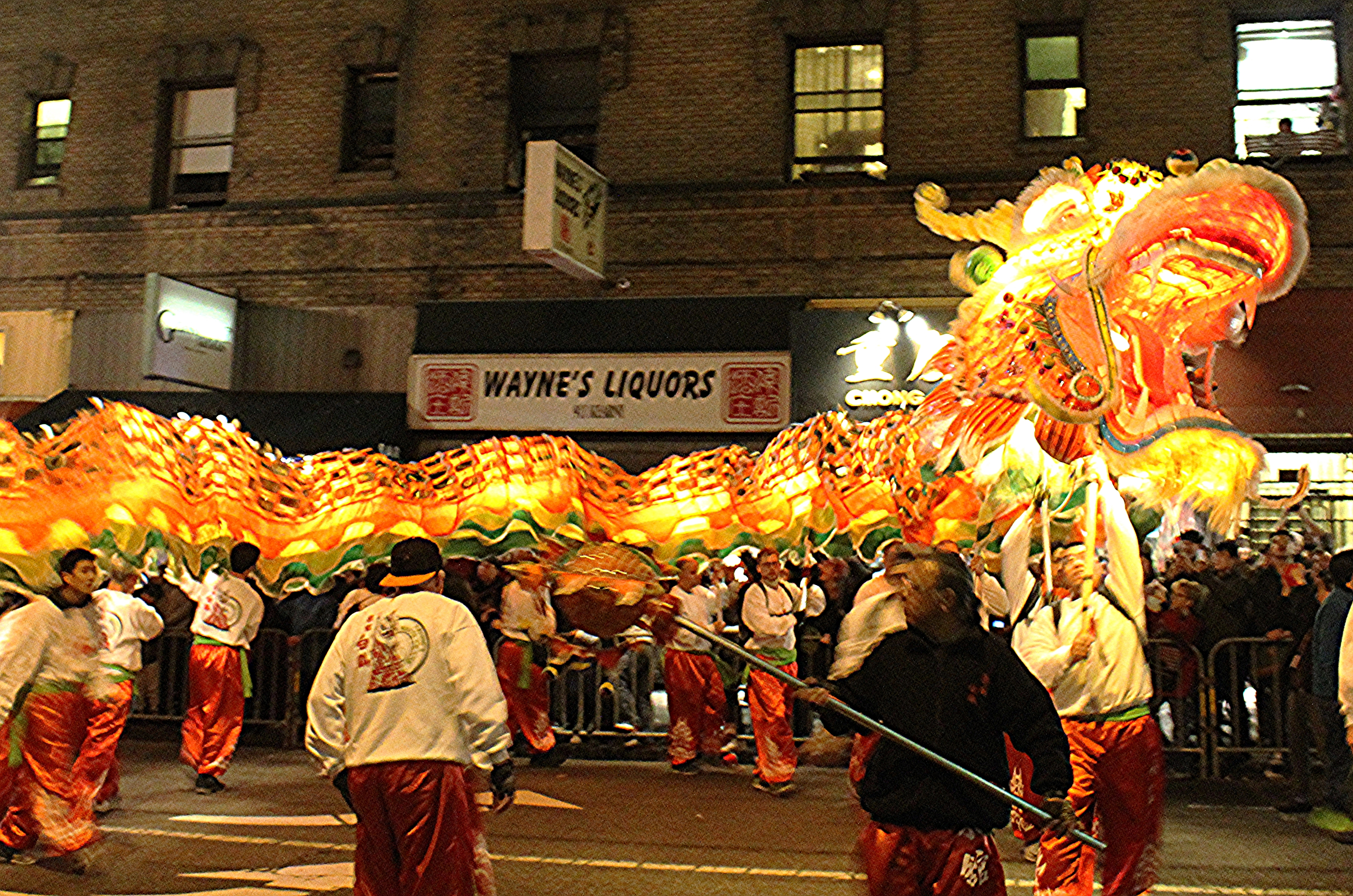 Reposting for Chinese New Year! Originally taken in Feb 2017 The head of the 260 ft dragon in last nights New Year's Parade in Chinatown, San Francisco. They say the longer the dragon, the more luck for the community, so thankfully it was very long. I'm not very adept at taking night shots, but decided to share it anyway.